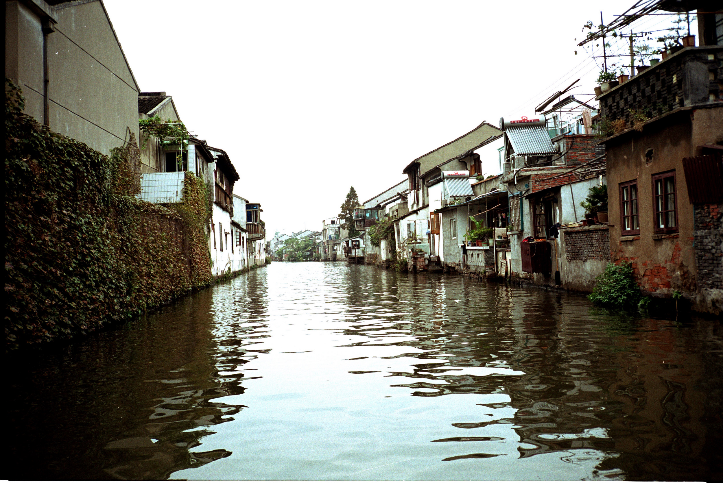 Shantang River in Suzhou苏州山塘河